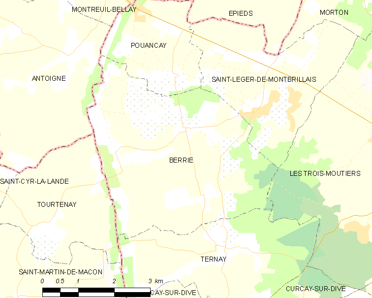 Map of French municipality Berrie